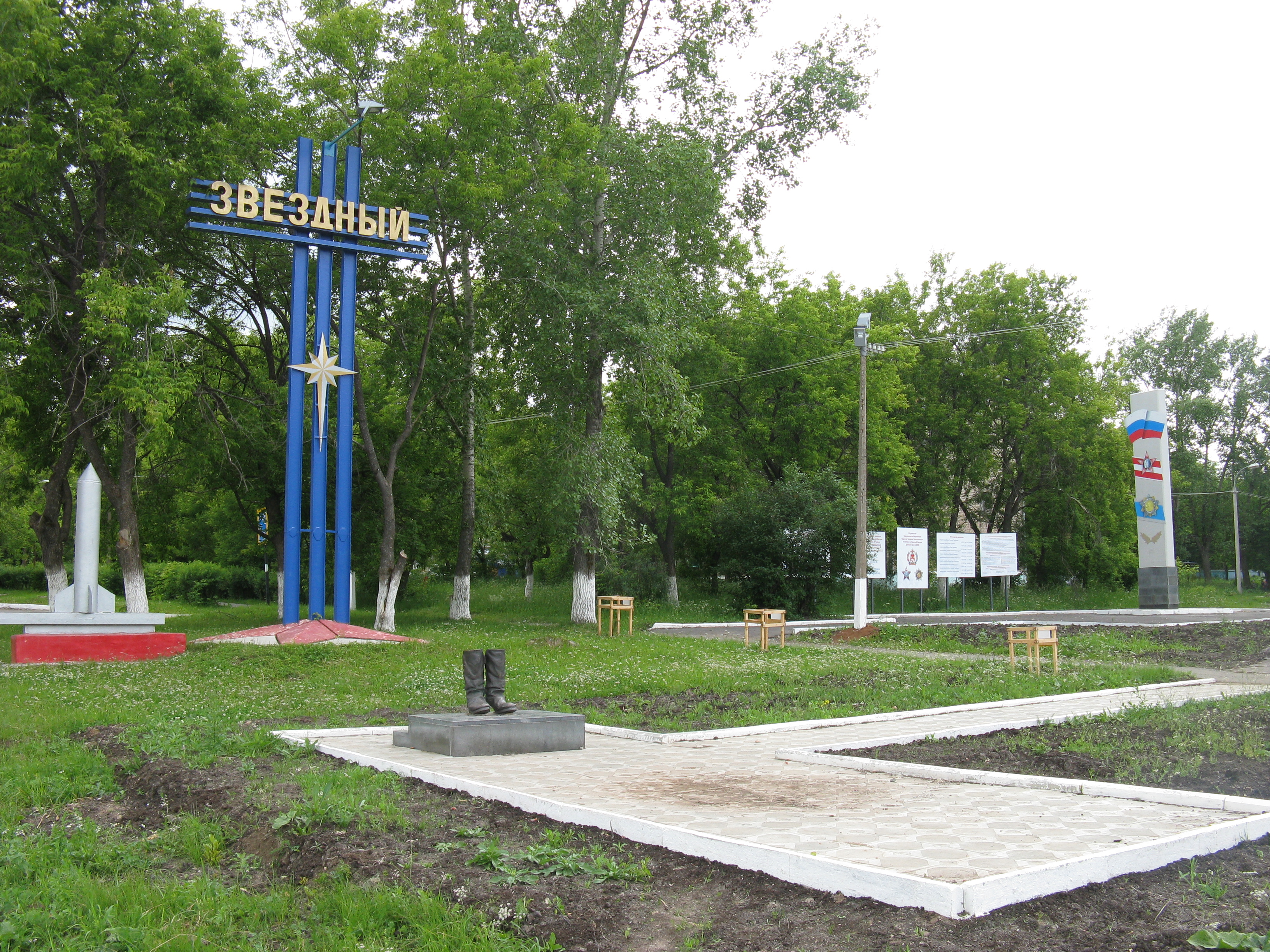 Closed town Zvezdniy in Perm Krai. Stele 52nd divisions of Strategic Rocket Forces and a monument to soldier's boots on entrance to settlement.